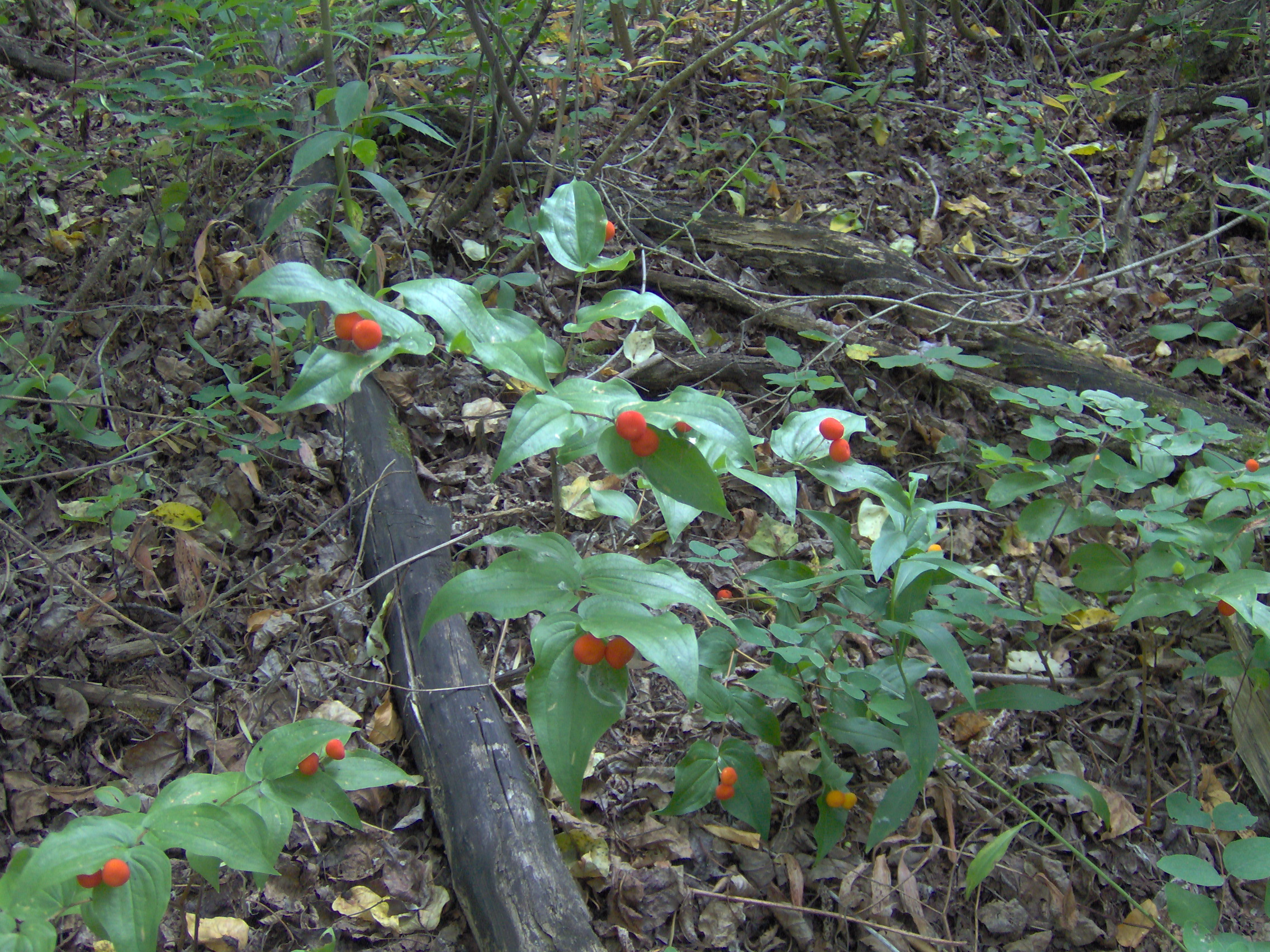 Fairybells. A type of Disporum....Disporum trachycarpum. Fruit is velvety (fuzzy) lemon yellowy, then orange, then red when all the way ripe. The berry is larger than a chokecherry, saskatoon, or pincherry, about the same size as a grocery cherry or grape. Leaves are about 3 inches long and about 2 inches wide, bright green. Low growing shorter than one's knees. Found when climbing up the South Saskatchewan River bank from the shoreline to the meadow area. Saskatoon's, Buffalo berries, and chokecherries at top of river bank area also. Compared to description in book entitled Wildflower across the prairies. Compare also to flowering plant, with no berry at Disporum trachycarpum